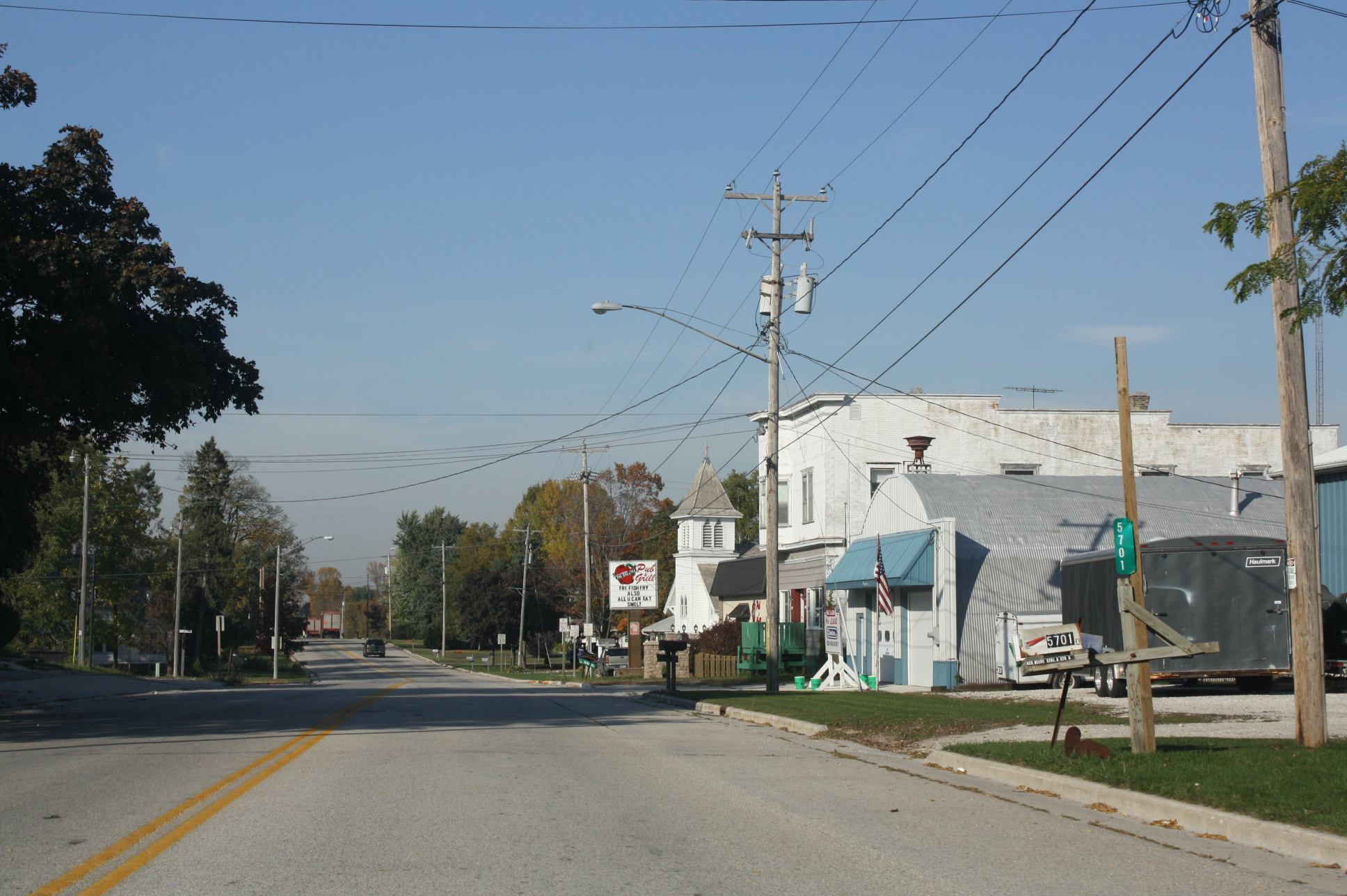 Looking north in downtown Rockwood, Wisconsin on the former U.S. Route 141 (now County R).